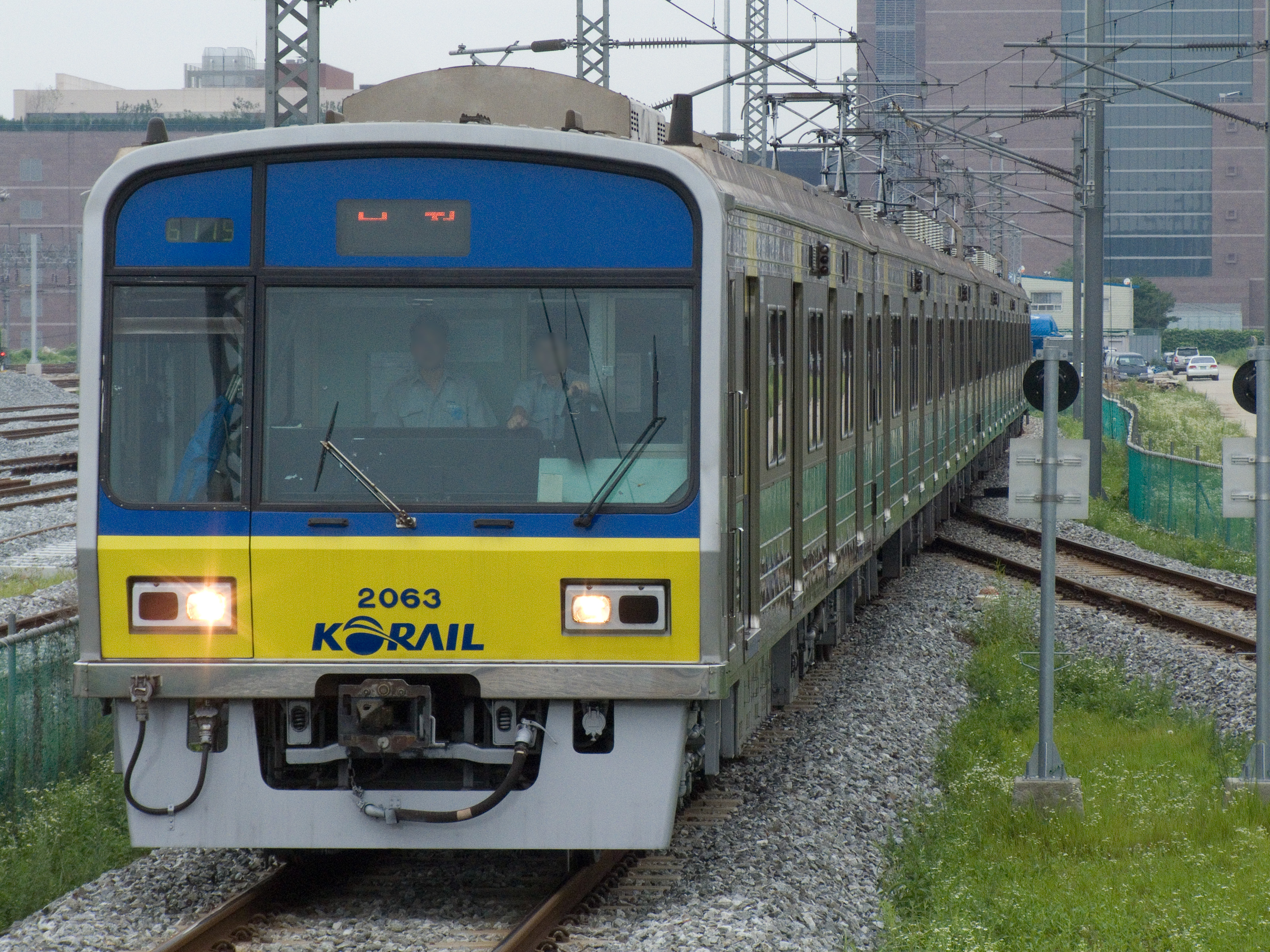 Korea Railroad series 2000 on the Bundang Line